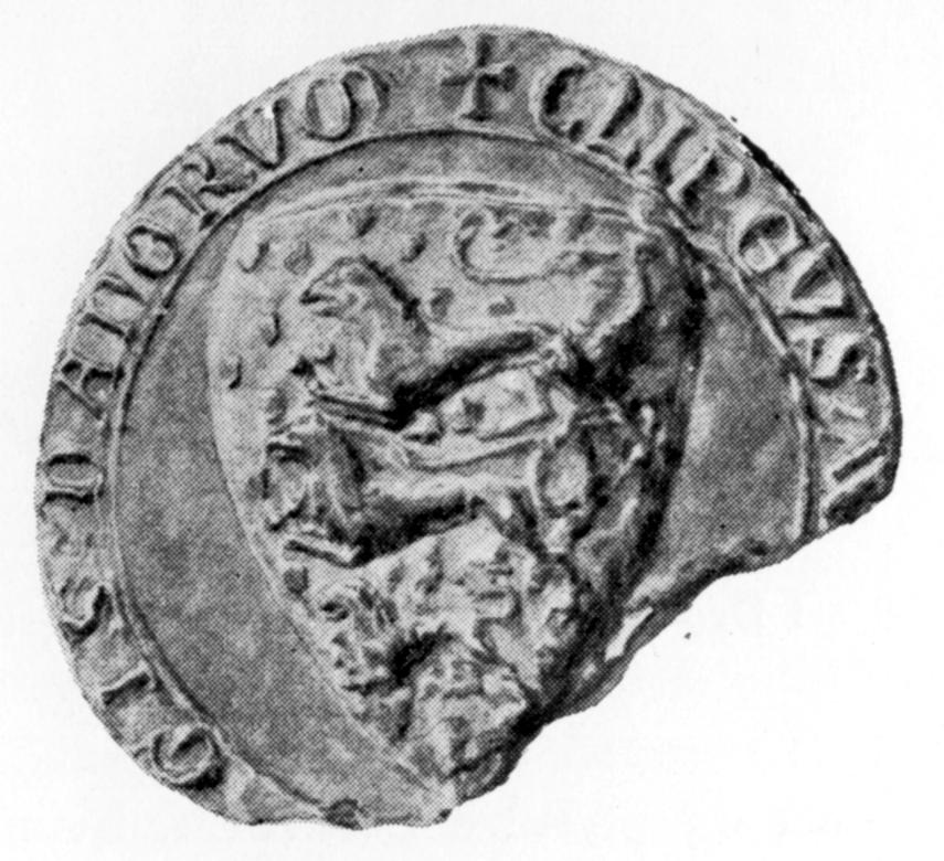 Reverse side of the Seal of Danish King Valdemar the Victorious (Valdemar 2. Sejr). This seal is known from documents dating 1204-1241.